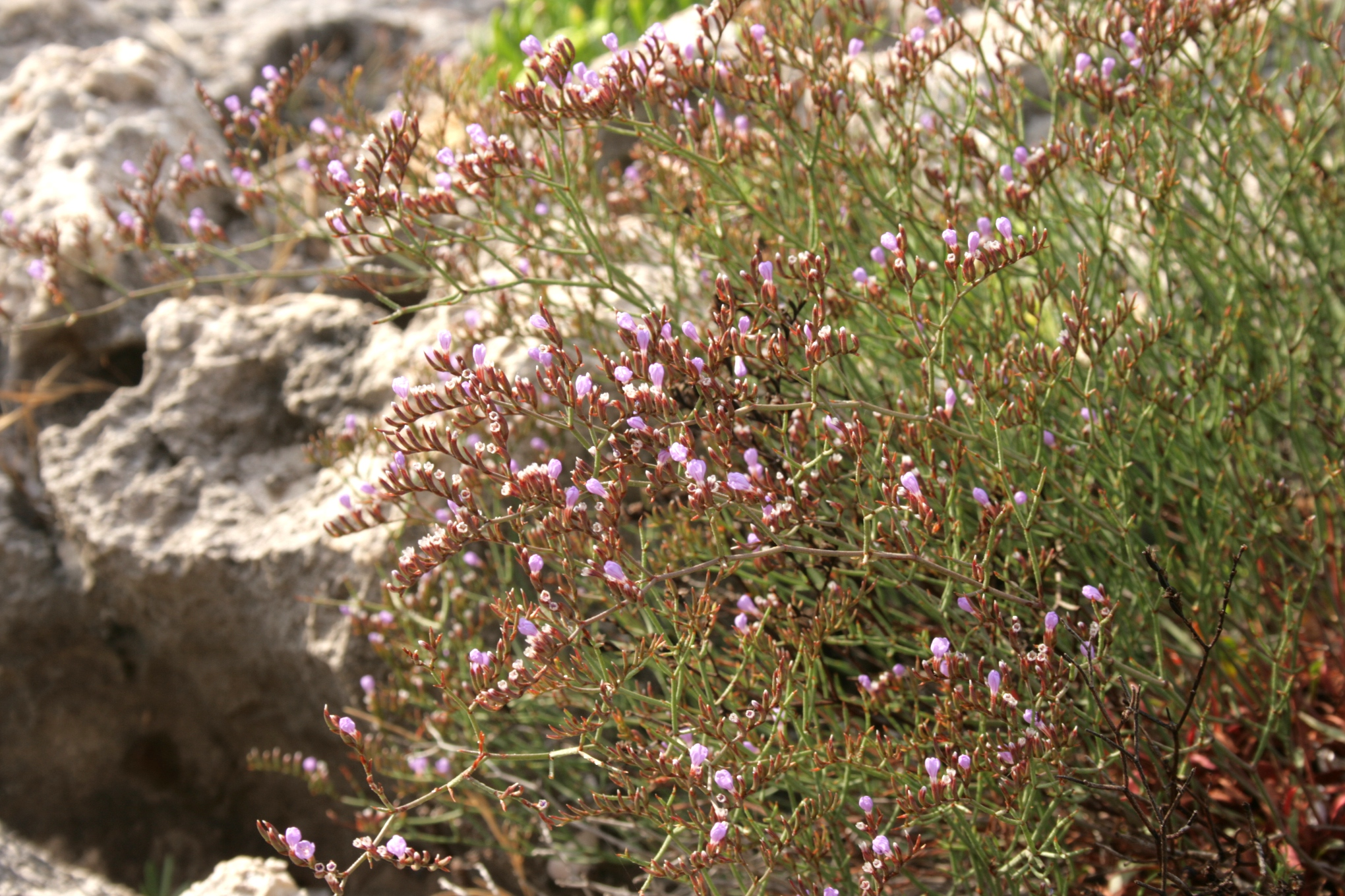 Limonium ramosissimum: Flowers